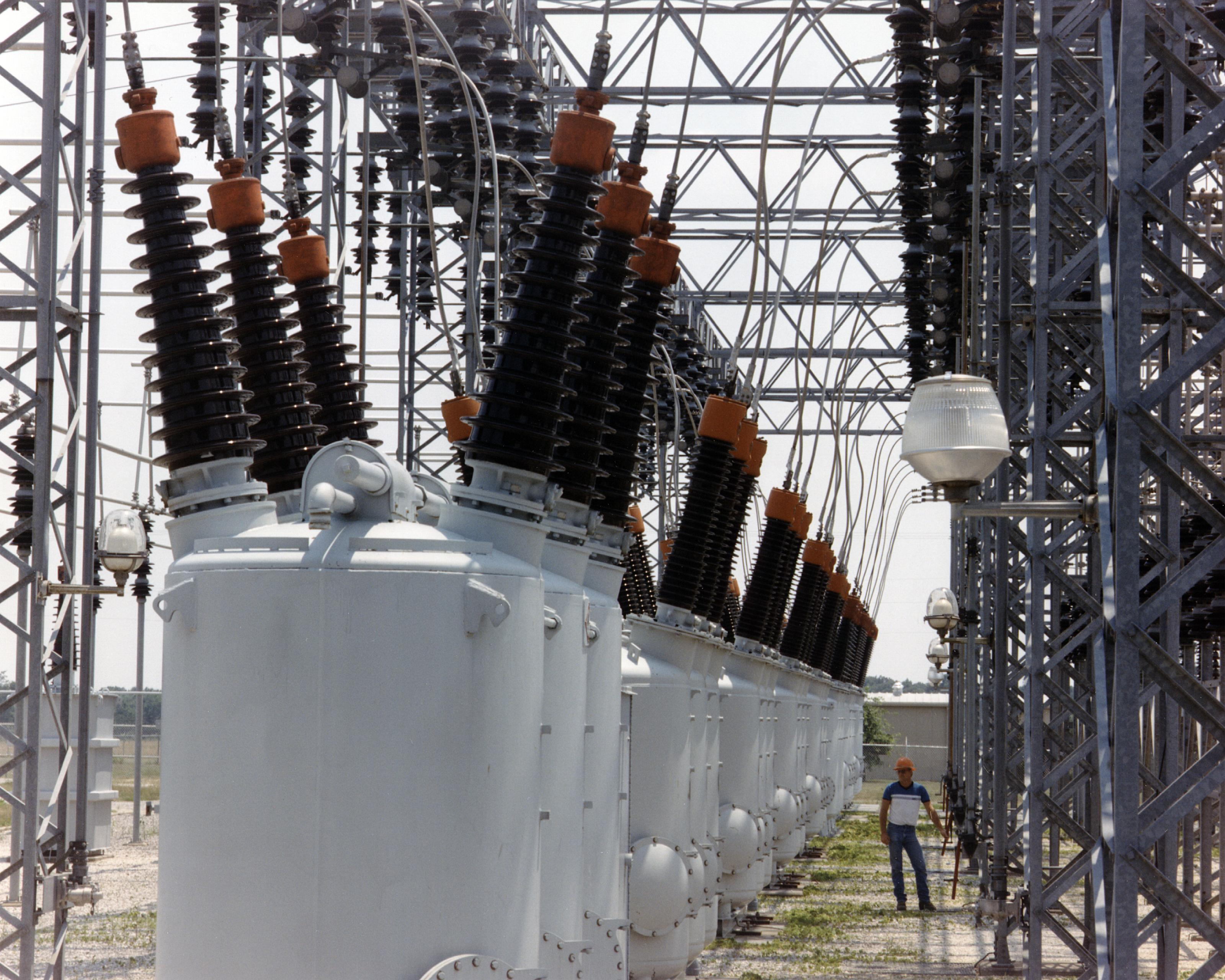 SWITCH YARD IN OKLAHOMA. THE SOUTHWESTERN FEDERAL POWER SYSTEM ENCOMPASSES THE OPERATION OF 23 HYDROELECTRIC POWER PLANTS BY THE US ARMY CORPS OF ENGINEERS AND THE MARKETING OF POWER AND ENERGY FROM THOSE PLANTS BY SOUTHWESTERN POWER ADMINISTRATION OF THE US DEPARTMENT OF ENERGY. TO INTEGRATE THE OPERATION OF THESE HYDROELECTRIC GENERATING PLANTS AND TO TRANSMIT POWER FROM THE DAMS TO ITS CUSTOMERS, SOUTHWESTERN MAINTAINS 1,380 MILES OF HIGH-VOLTAGE TRANSMISSION LINES. THE SOUTHWESTERN POWER SERVICE REGION ENCOMPASSES ARKANSAS, KANSAS, LOUISIANA, MISSOURI, OKLAHOMA AND TEXAS. For more information or additional images, please contact 202-586-5251.